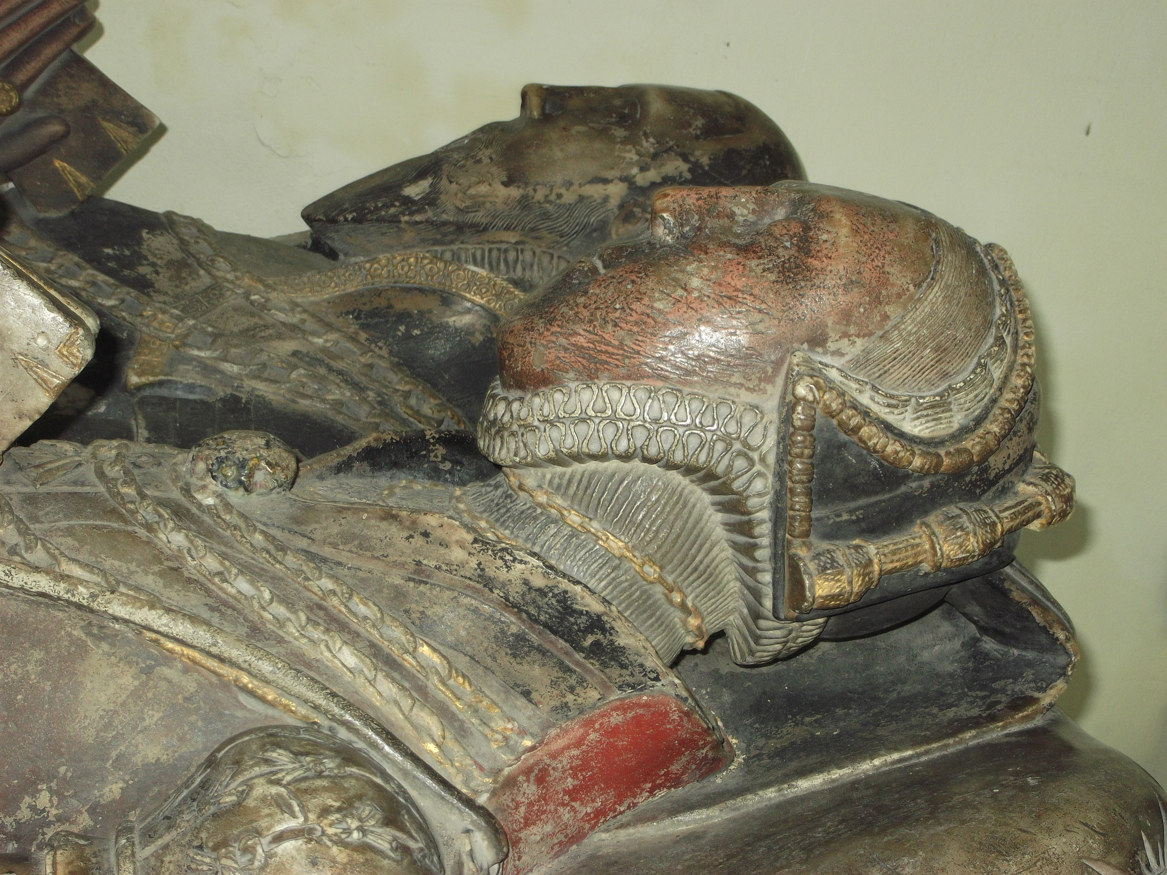 Effigies of Margaret Bromley and her husband, Richard Newport (died 1570), St Andrew's church, Wroxeter, Shropshire.